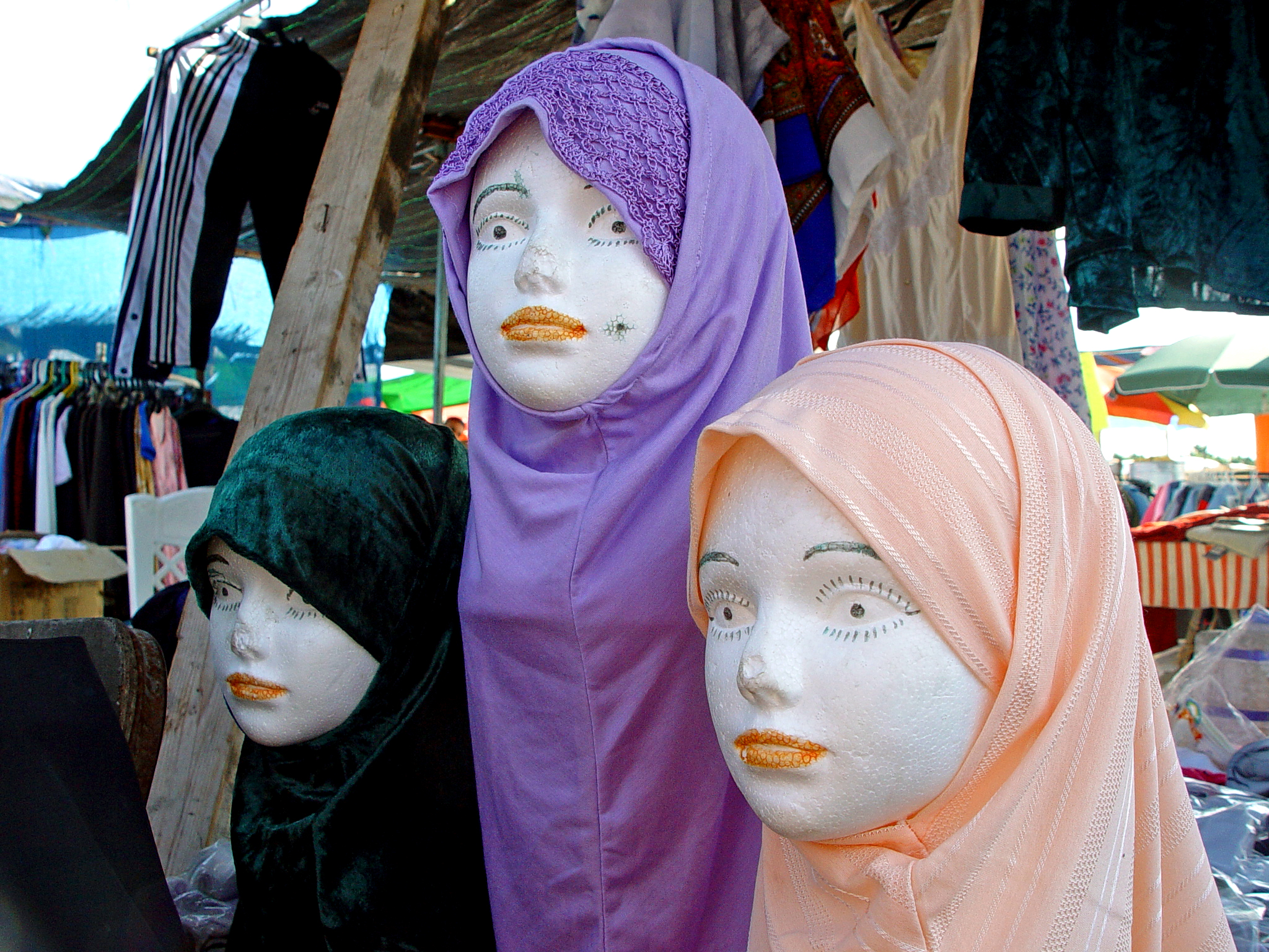 Mannequins with traditional Moslem veils at Tira's (Israel) Saturday's market